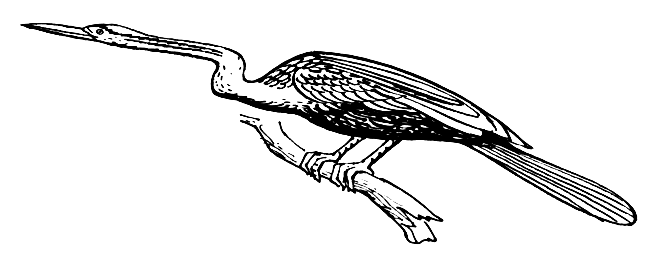 Line art drawing of a darter.